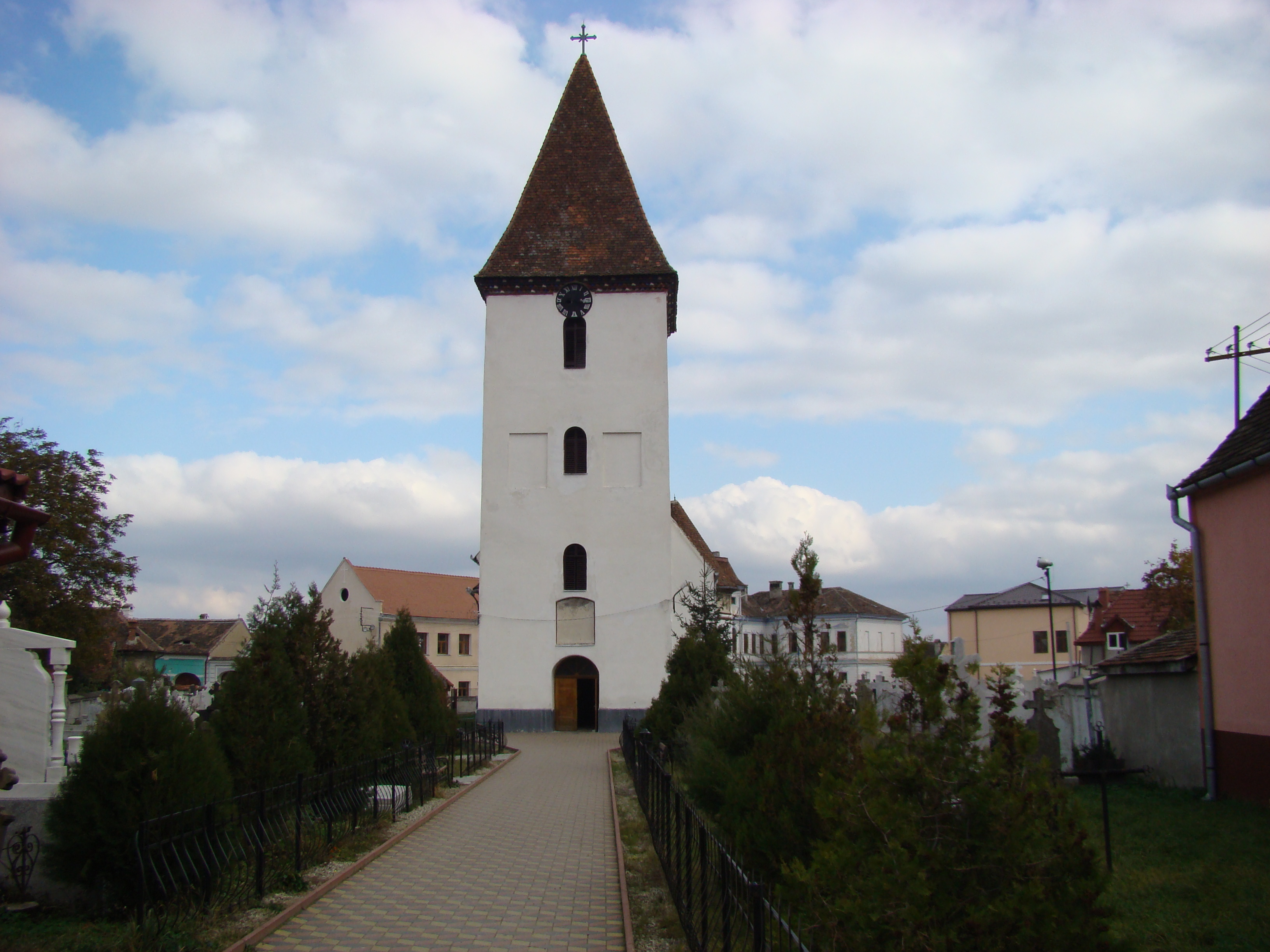 the Ascension of Our Lord Orthodox Church in Săliștea, Sibiu County, Romania